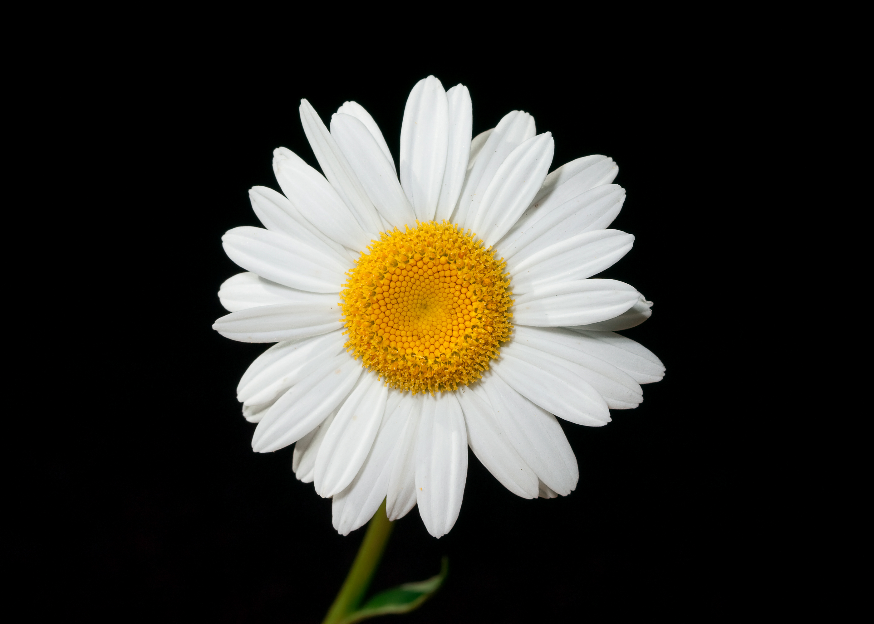 Oxeye Daisy (Leucanthemum vulgare)